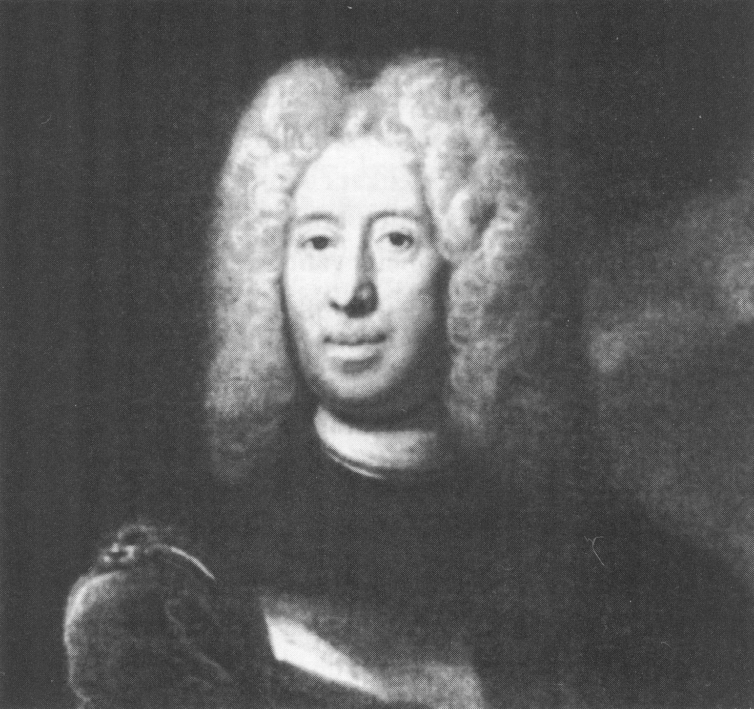 Axel Gyllenkrok (1665-1730), Swedish baron, Lieutnant General and county governor in the county of Gothenburgh and Bohus 1723-30.